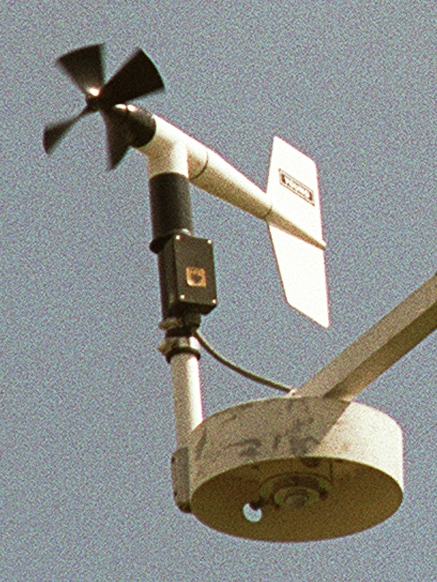 Propeller and Vane anemometer. Cropped version of the following image: The top of the Surface Meteorological Observation System (SMOS) at the Southern Great Plains site. Document Title: Surface Meteorological Observation System - Southern Great Plains.